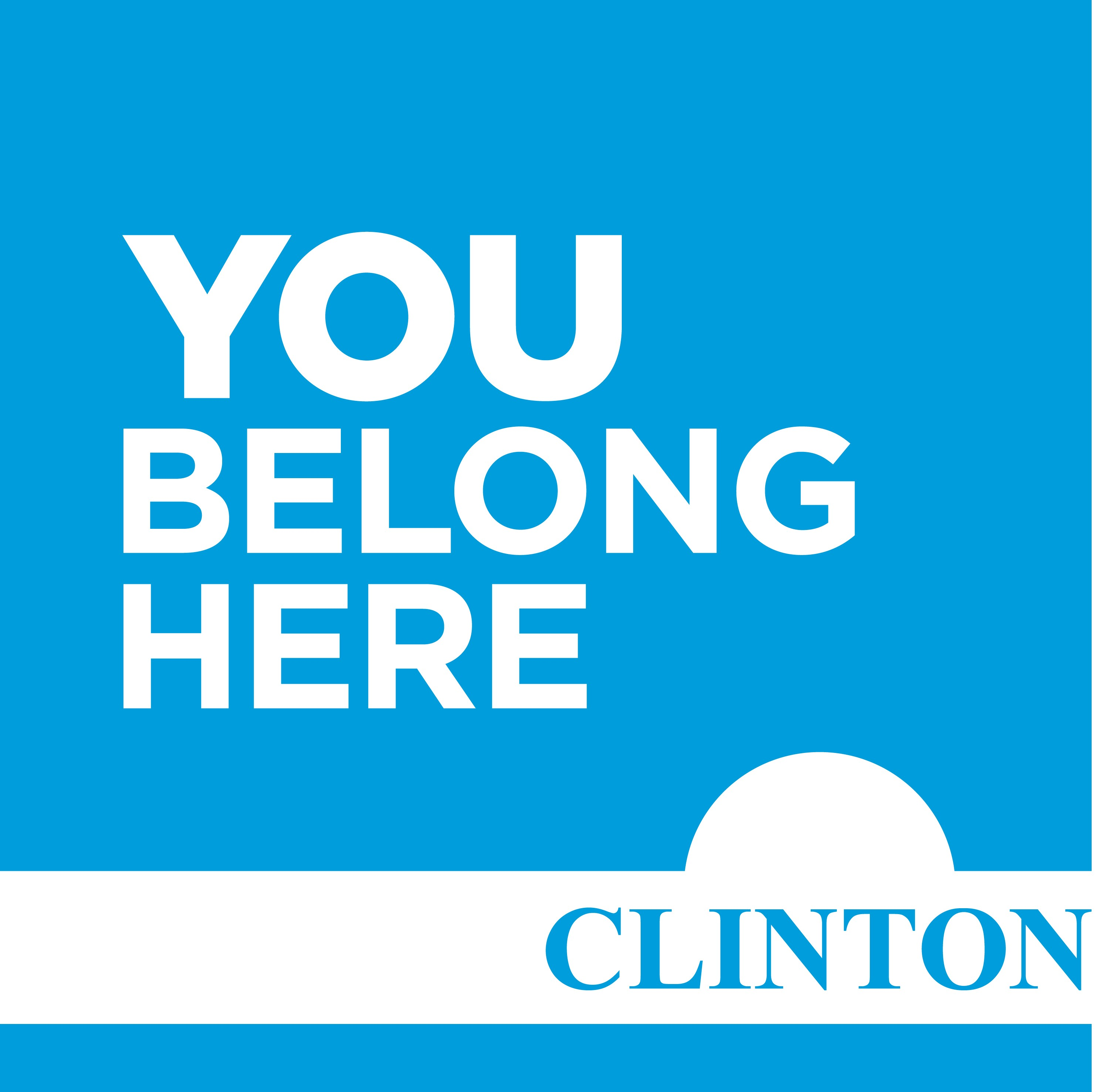 Official logo for the City of Clinton, MS